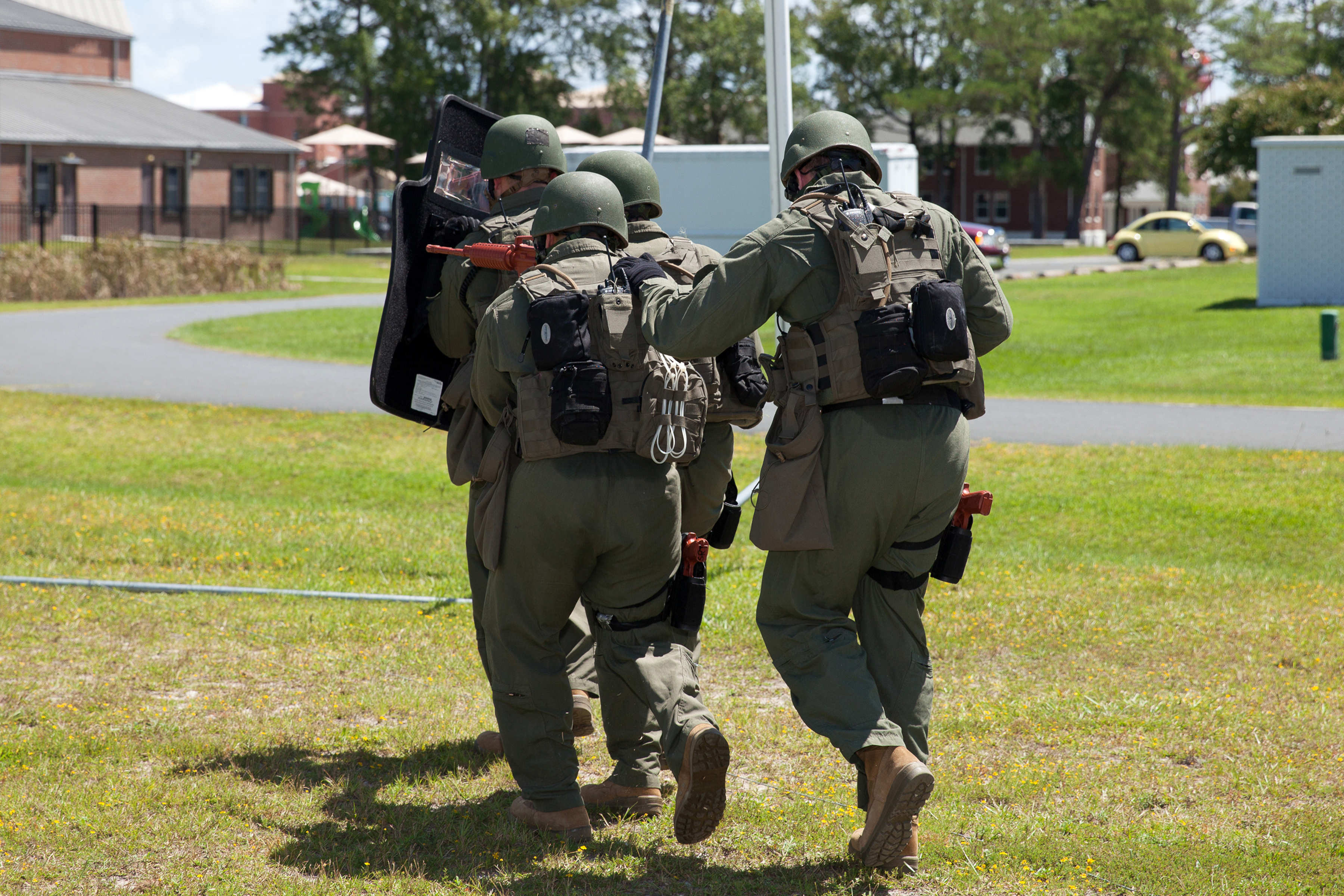 Members of a Special Response Team prepare to enter a building as part of a training exercise at Marine Corps Air Station Cherry Point, N.C., Aug. 26, 2014. The training simulated an active-shooter scenario and hostage situation to help members of Cherry Point's law enforcement train and prepare for real life scenarios. The exercise also helped Cherry Point and 2nd Marine Aircraft Wing validate the air station's active-shooter response plan.